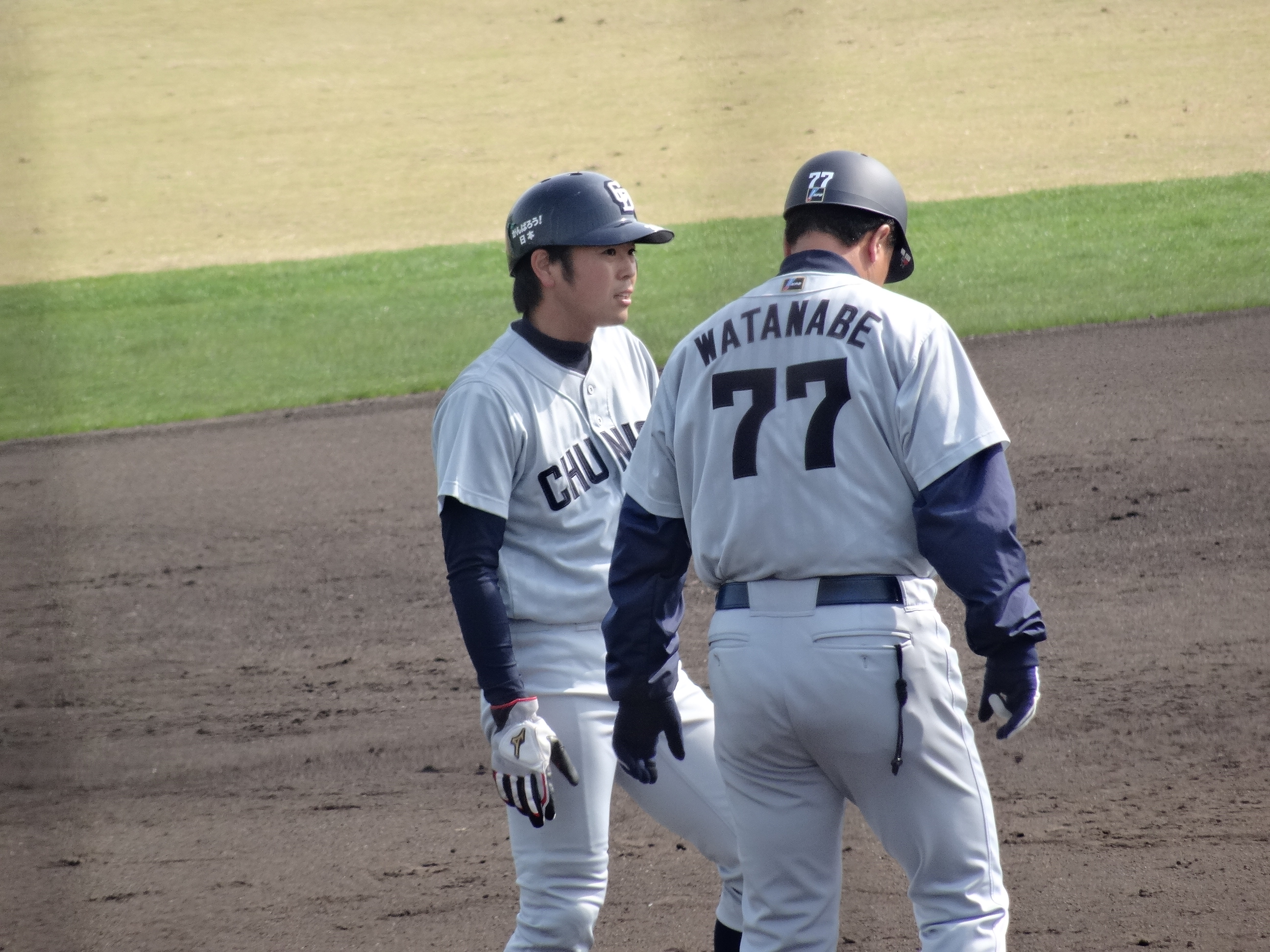 Daisuke Hashizume (left), infielder, and Hiroyuki Watanabe, coach, of the Chunichi Dragons, at Hanshin Naruohama Baseball Ground.